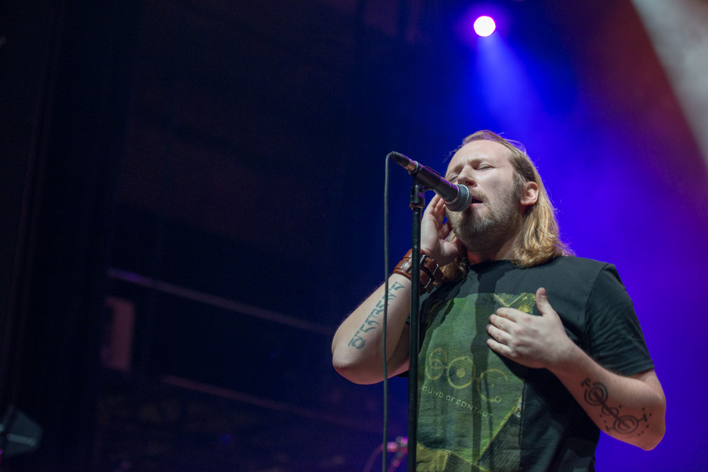 Simon Collins of Sound of Contact performs during the First Contact concert at l'Olympia in Montreal Canada during the Marillion Weekend on 24th March 2013.